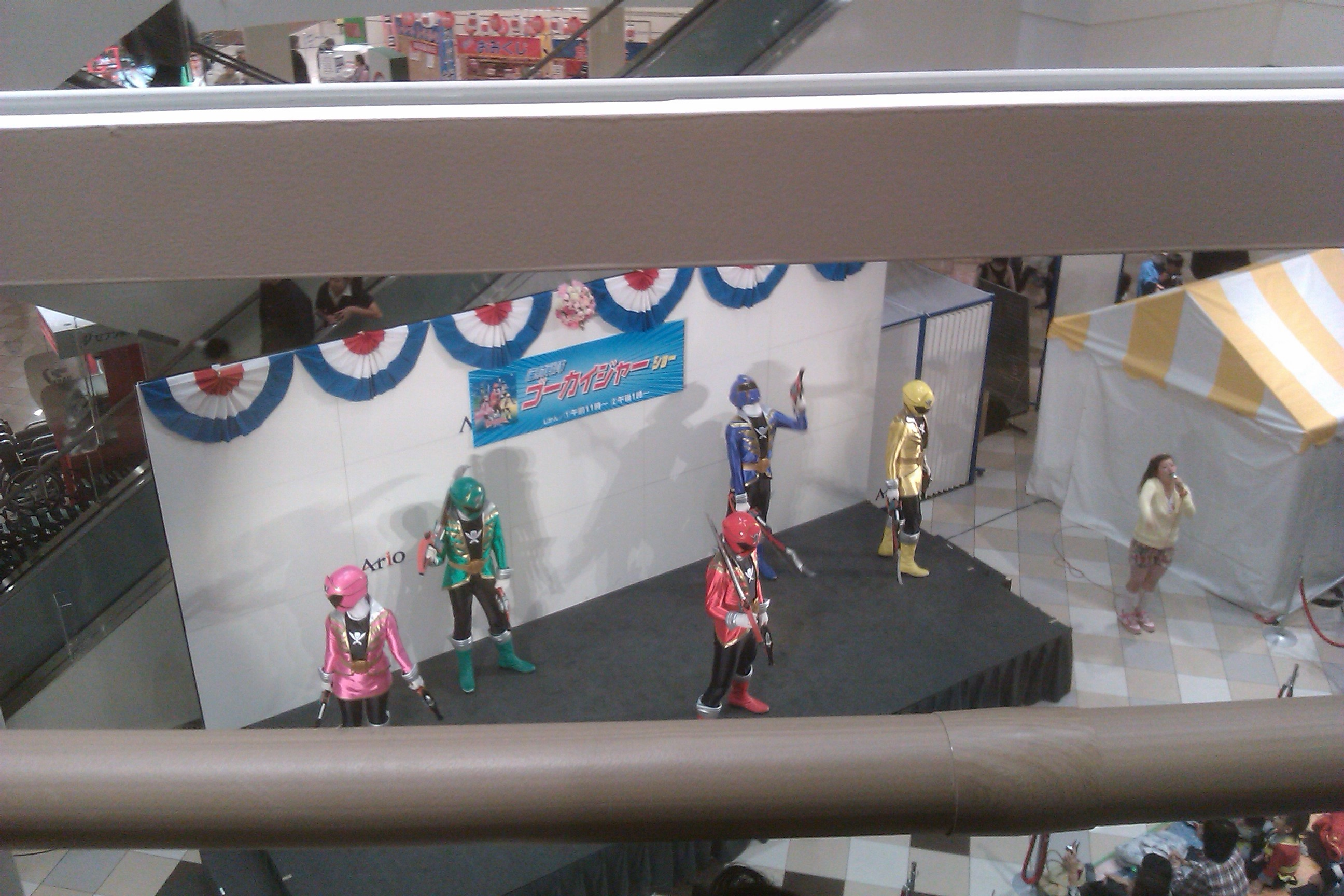 Zm!smxms!xmmsxmjsmzjskxkwkxjwjxjwmsjwjsjwmjxjxjsmjxjw!skwksjw